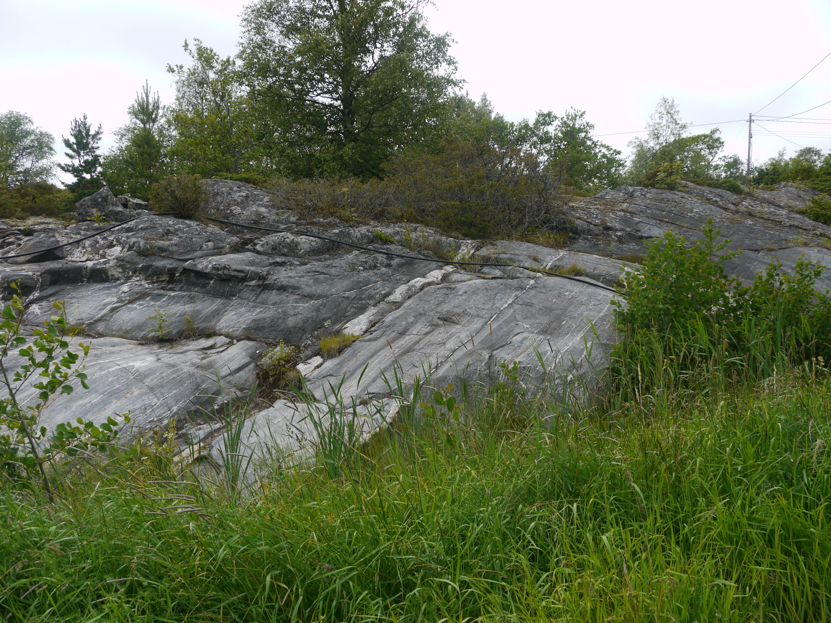 Dikes (geological structure) in the isle of Korsö, part of Brändö (Åland, Finland)